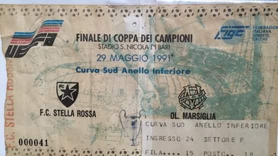 Ticket for final of Cup of European Champions 1991 played by Red Star versus Olympique de Marseille in Stadio San Nicola, Bari, Italia. 29. maj 1991.